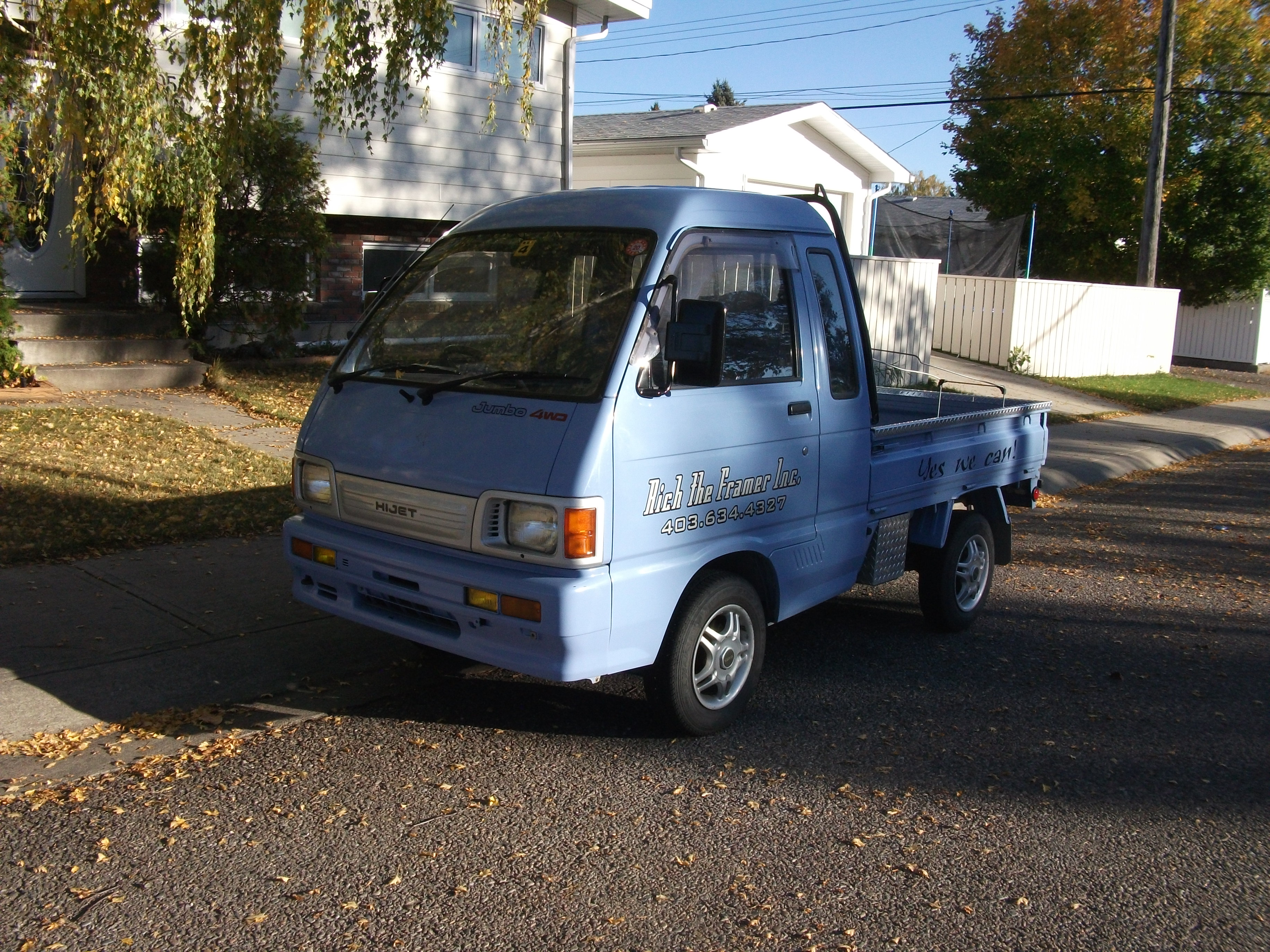 Kei class truck - this one a Daihatsu Hijet